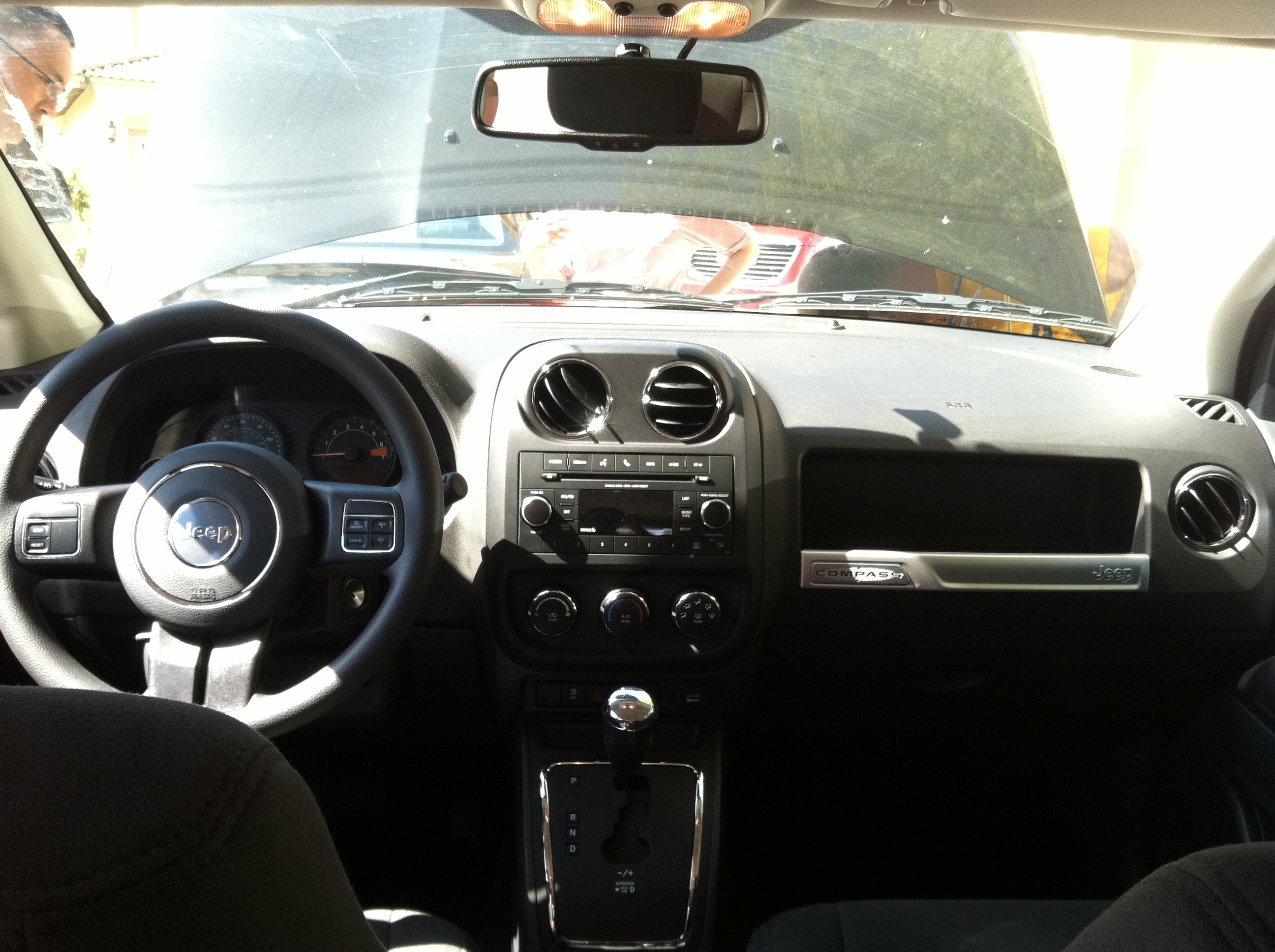 Jeep Compass 2017 CUV Interior.